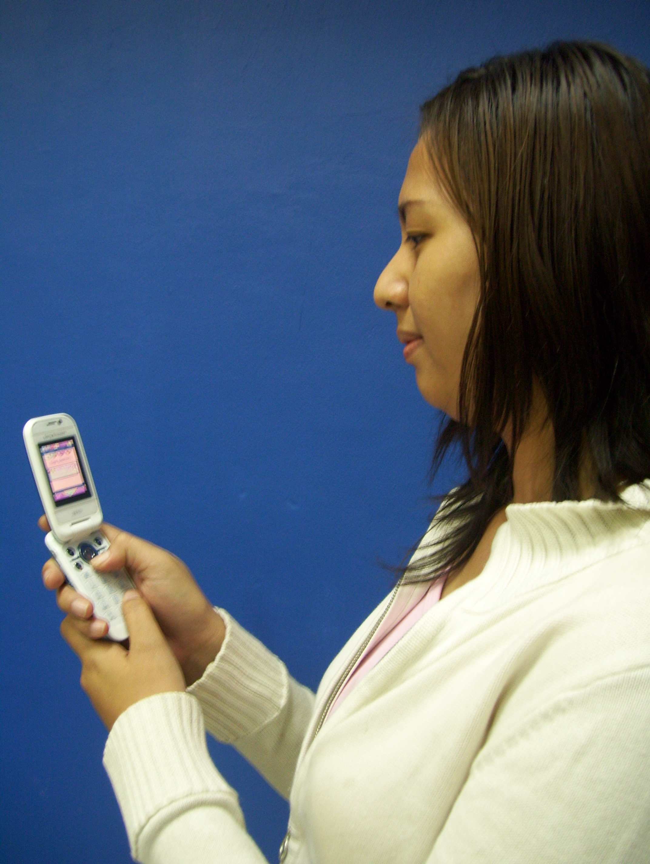 Ina and mobile phone